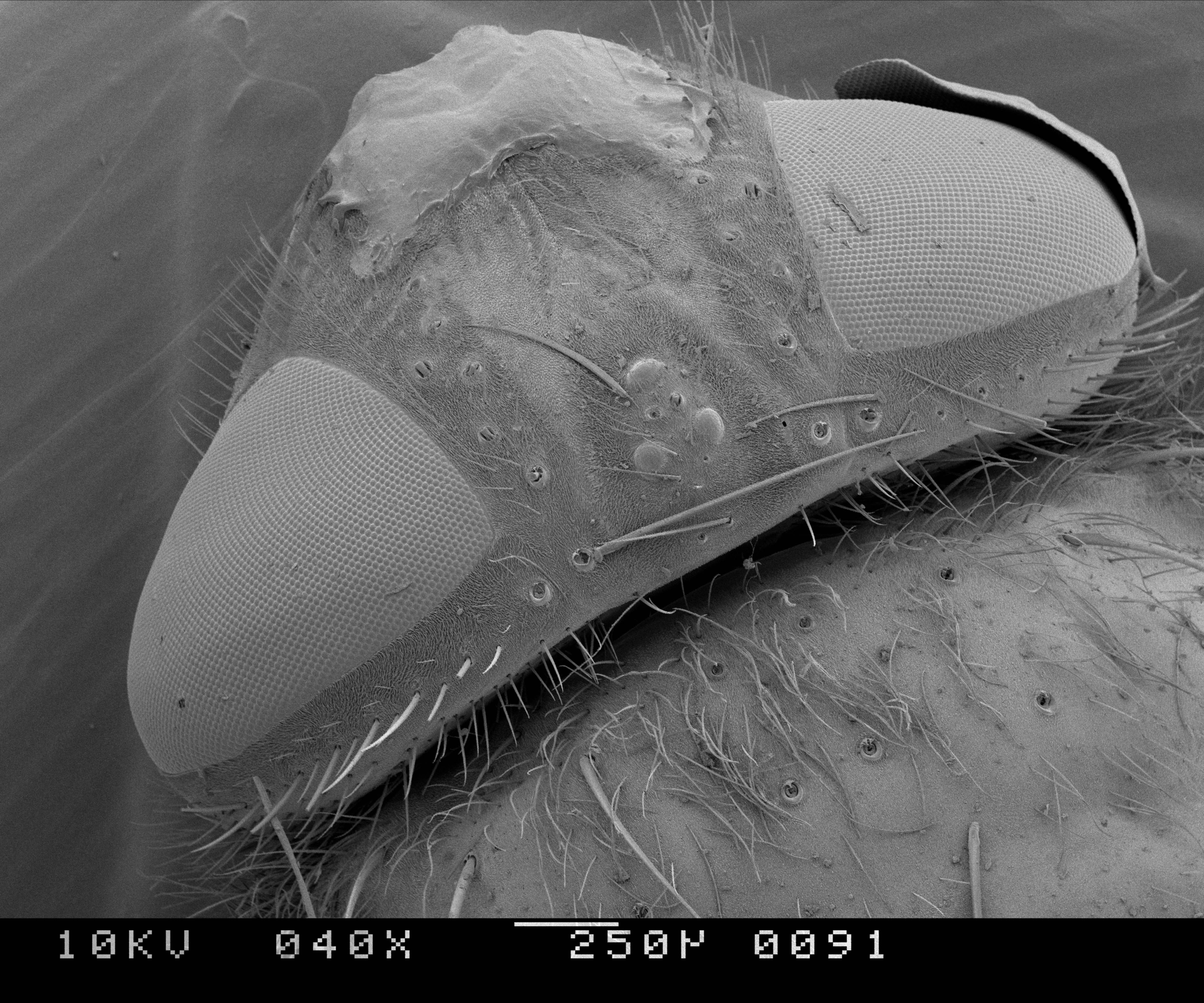 Scan taken of a house fly under a scanning electron microscope.